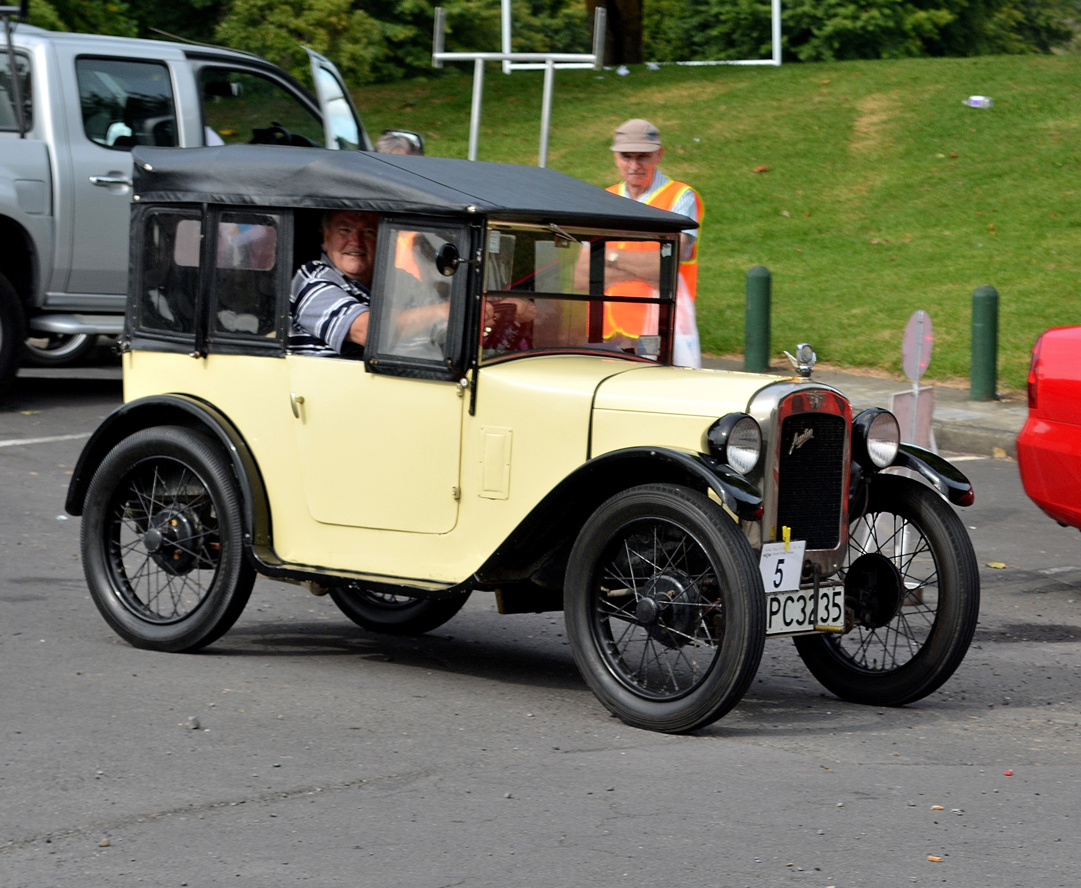 Papakura Vintage Car Rally,South Auckland.New Zealand